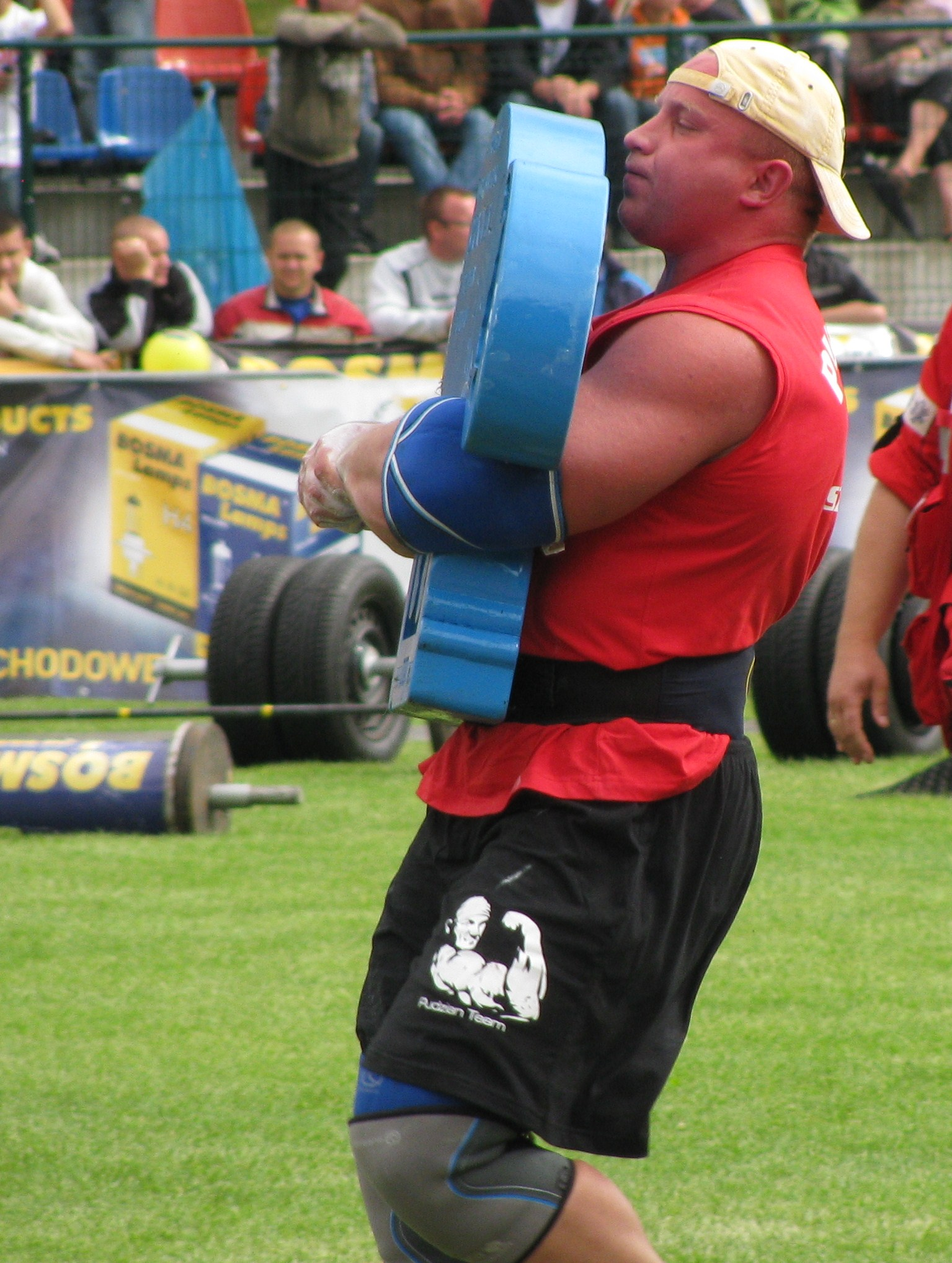 Grzegorz Szymański - a strength athlete from Poland & 230 kg.